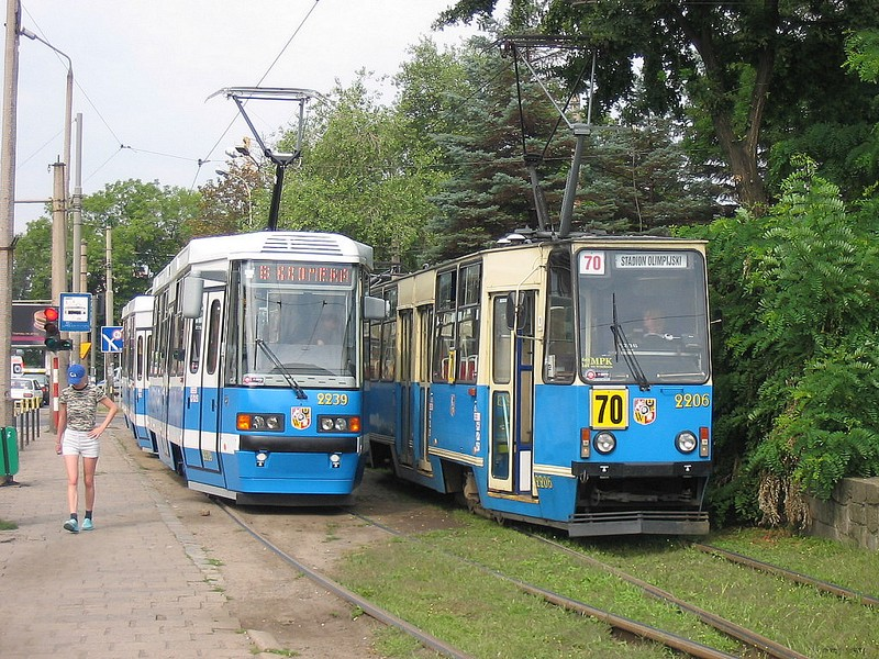 105Na type trams in Wrocław, Poland. Author: Tom_ek